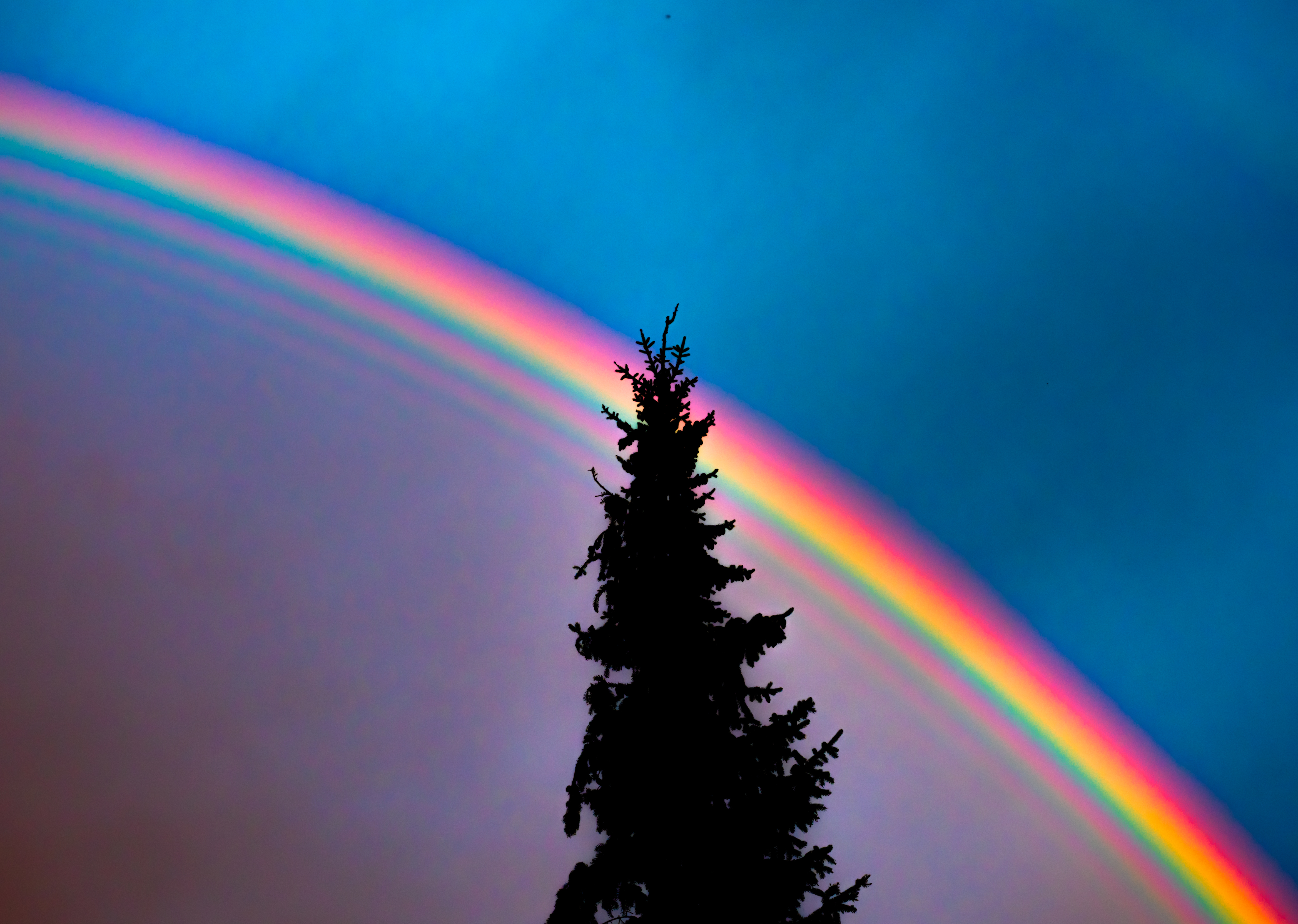 The primary rainbow, the higher order rainbows with alternatively reversed order of colors and Alexander's dark band are well understood with refraction, reflection and caustics. The explanation of the supernumerary rainbows lies beyond geometric optics. Within physical optics, the wave nature of light causes areas of constructive and destructive interference.